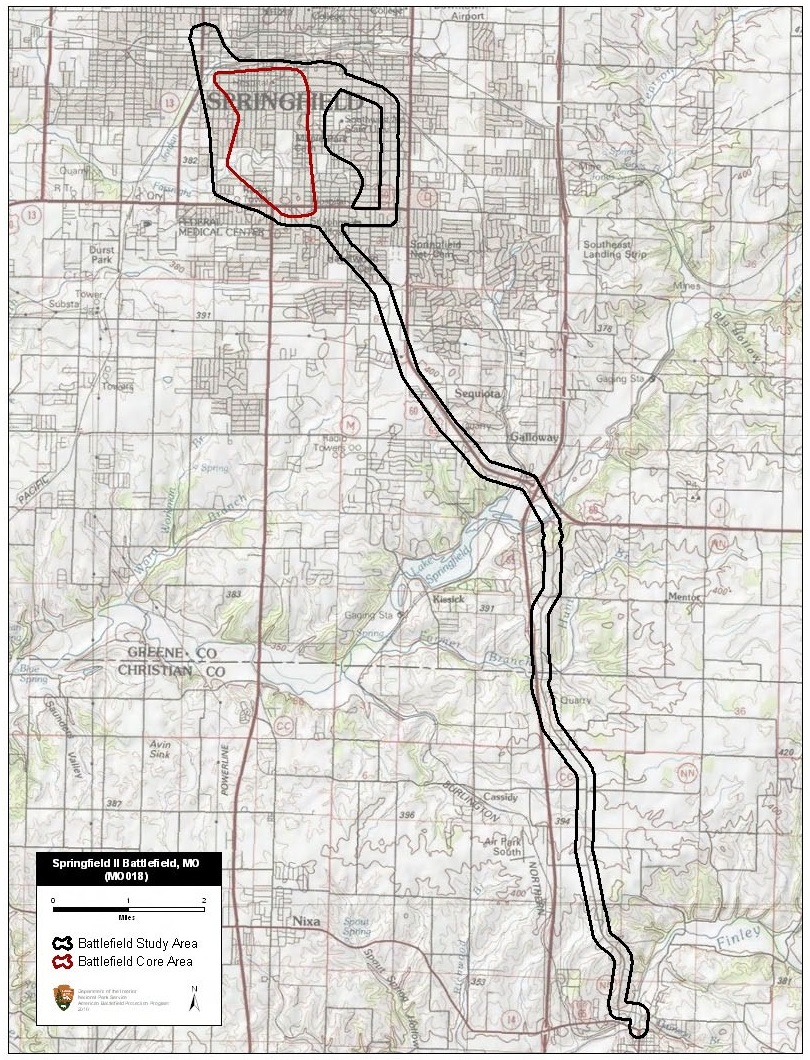 Map of battlefield core and study areas. The ABPP expanded the 1993 Study Area to include the Confederate approach route from Ozark to Springfield and the Confederate retreat route through the open prairie toward Marshfield (to the point at which the Confederates encamped). The 1993 Core Area was reduced slightly to more realistically reflect the range of the artillery involved in the battle, and to exclude the area of the Confederate bivouac.